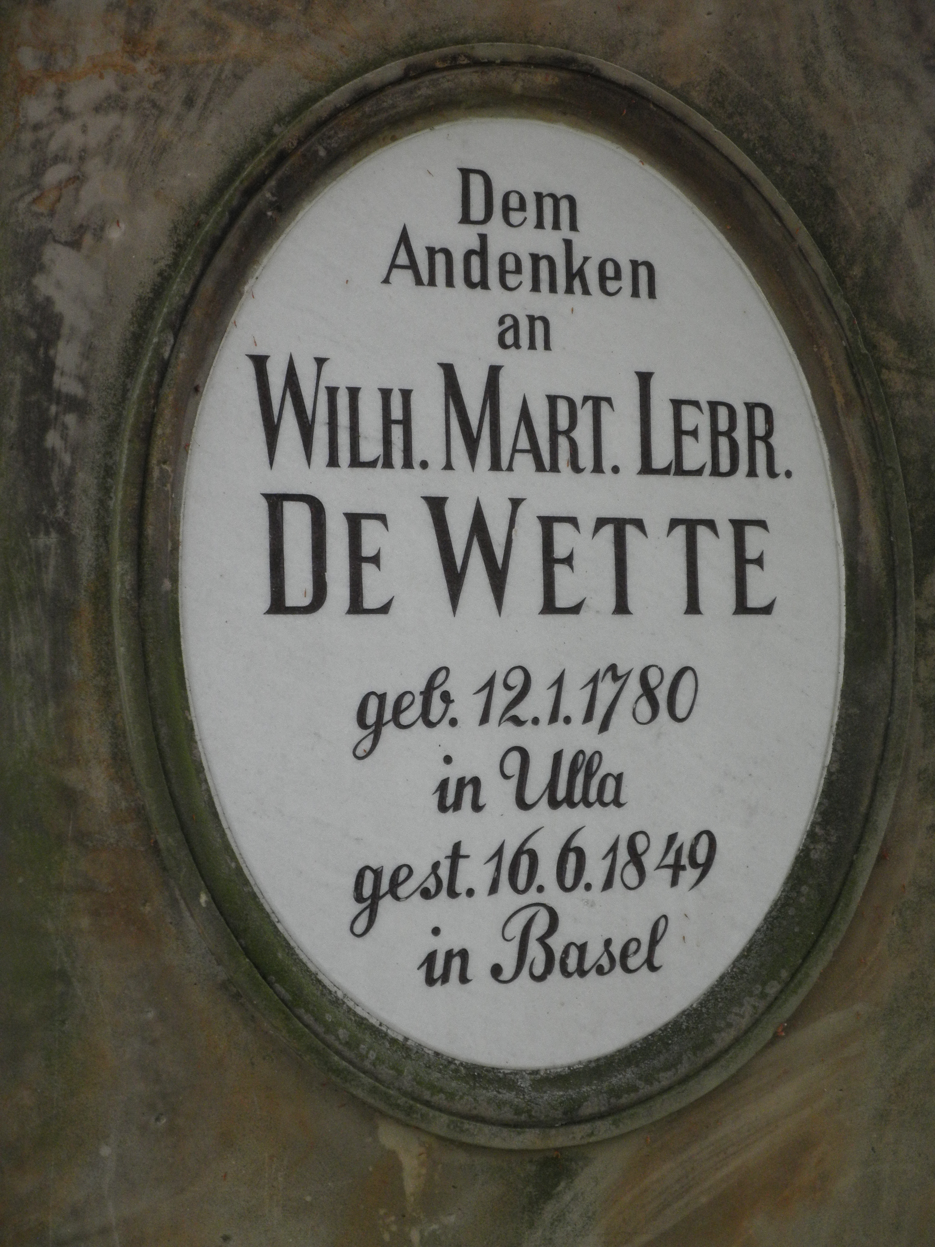 Commemorative Plaque in Ulla